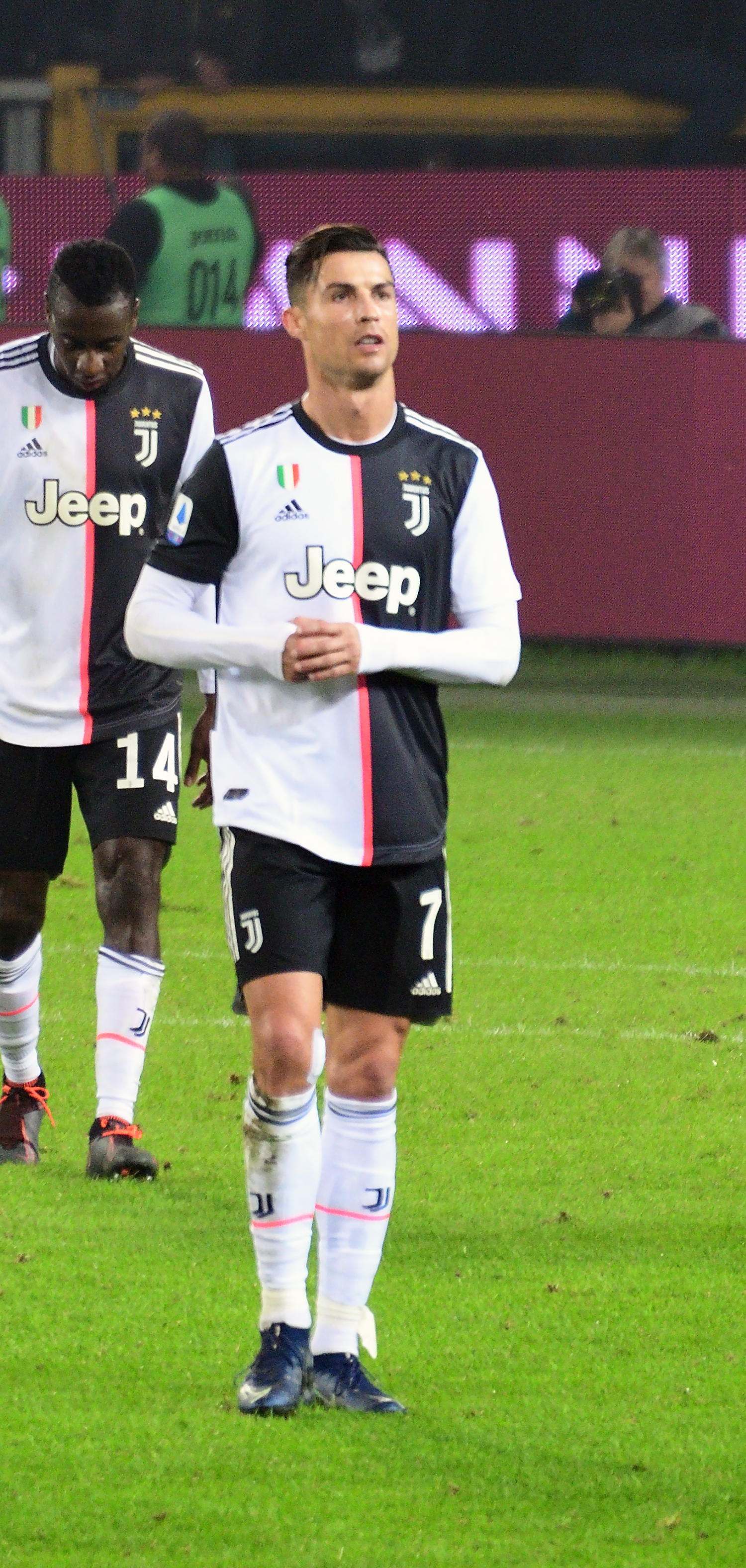 Turin (Italy), Olympic "Grande Torino" Stadium, November 2, 2019. Juventus' forward Cristiano Ronaldo leave the pitch at the end of the victorius Turin derby between Torino F.C. and Juventus F.C. (0-1), Matchday 11 of the Italian League 2019–20 Serie A; in the background, teammate Blaise Matuidi.